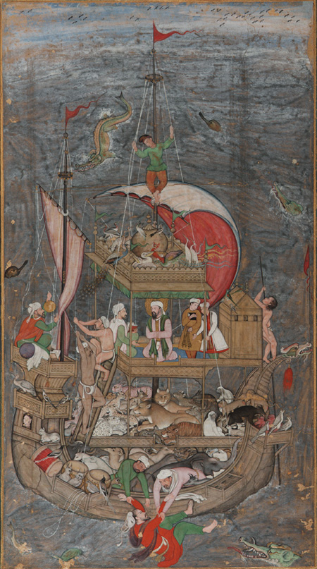 Noah's Ark ca. 1590 Miskin Mughal dynasty Akbar(r. 1556 - 1605) Color and gold on paper H: 28.1 W: 15.6 cm India Purchase F1948.8